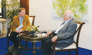 Israeli journalist David Horovitz interviewing professor and historian Bernard Lewis for The Jerusalem Post, at the US embassy in Tel Aviv, Israel.